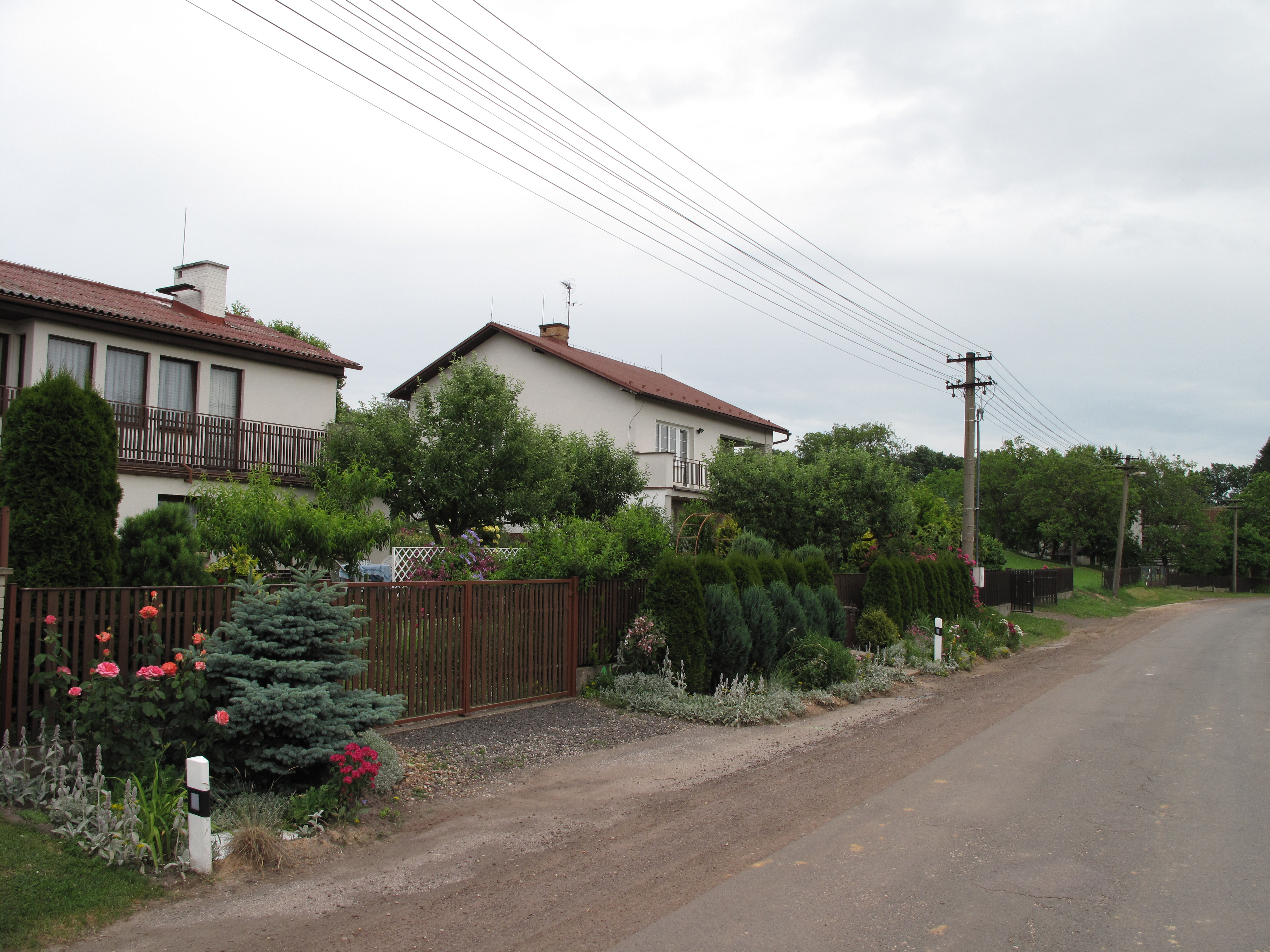 Houses with gardens in Dolánky village (Dřevěnice municipality), Jičín District, Czech Republic.